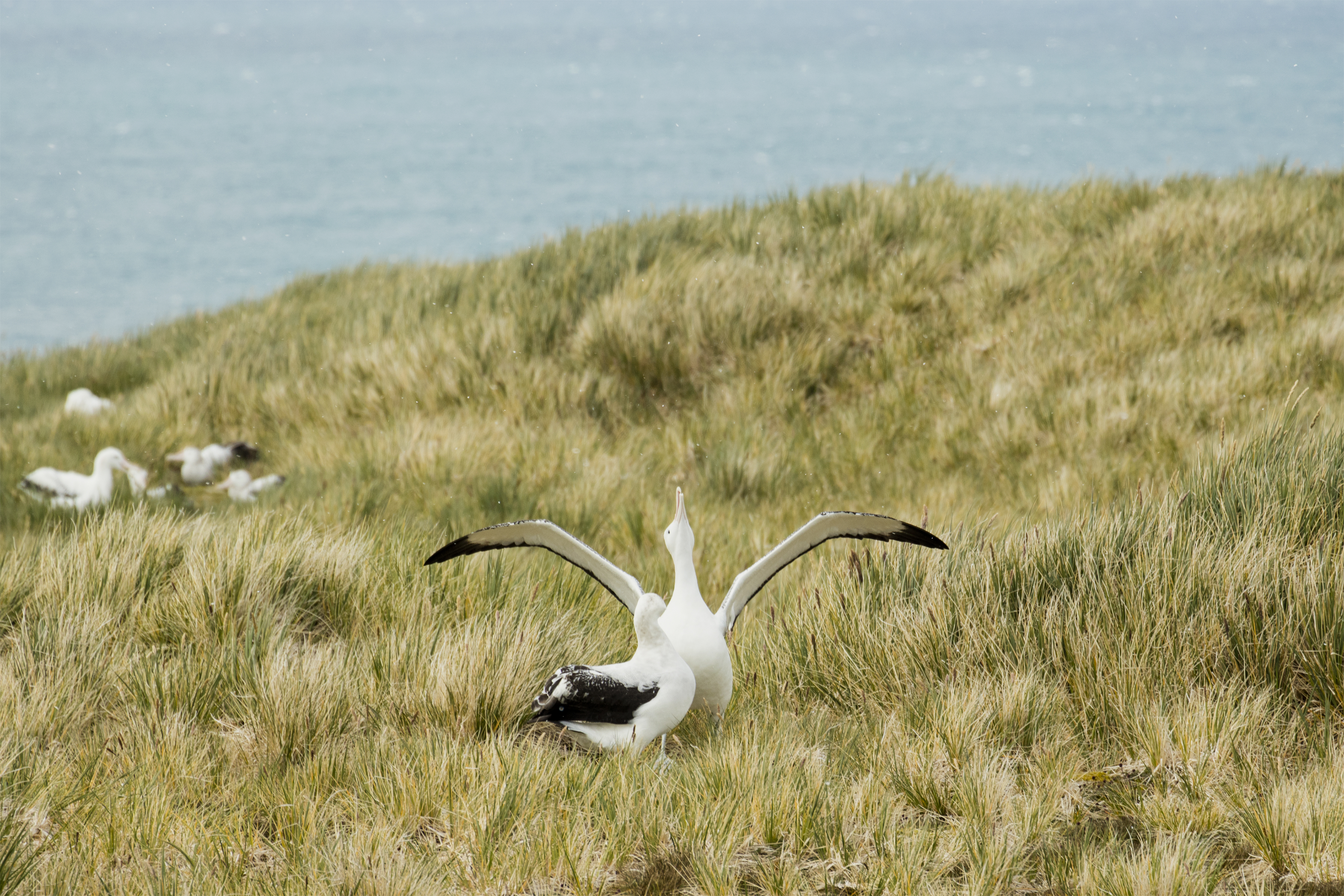 Wandering albatross (Diomedea exulans), Prion Island, South Georgia.